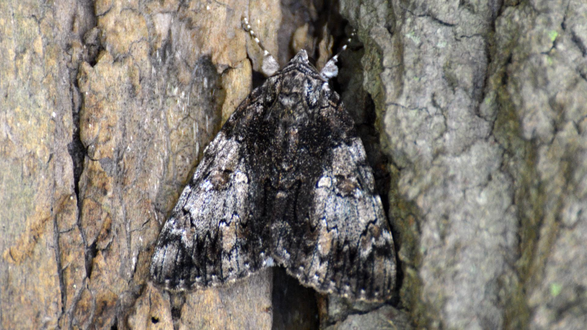 Carondelet Park in St. Louis City on 8/28/13 - 94 degrees. ID thanks to Paul Dennehy